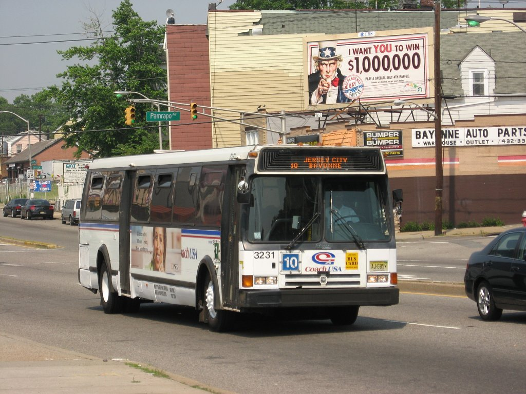 Coach USA Red & Tan in Hudson County Flxible Metro-B 43231 in Jersey City, New Jersey, United States, owned by and leased from New Jersey Transit at the time of the photo. This bus has since been returned to New Jersey Transit, retired there, and scrapped, and no longer exists.